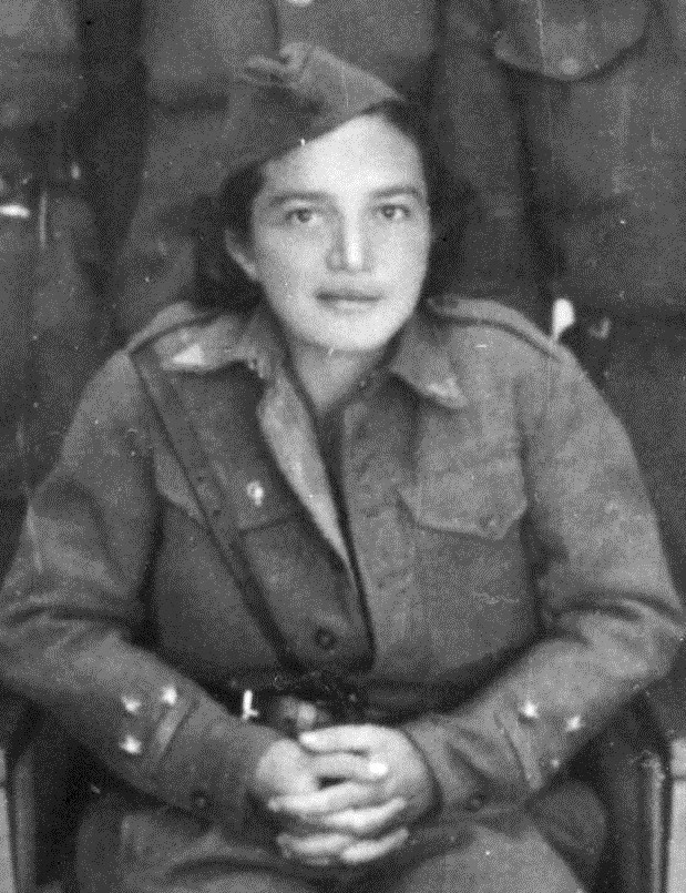 Roza Papo in uniform